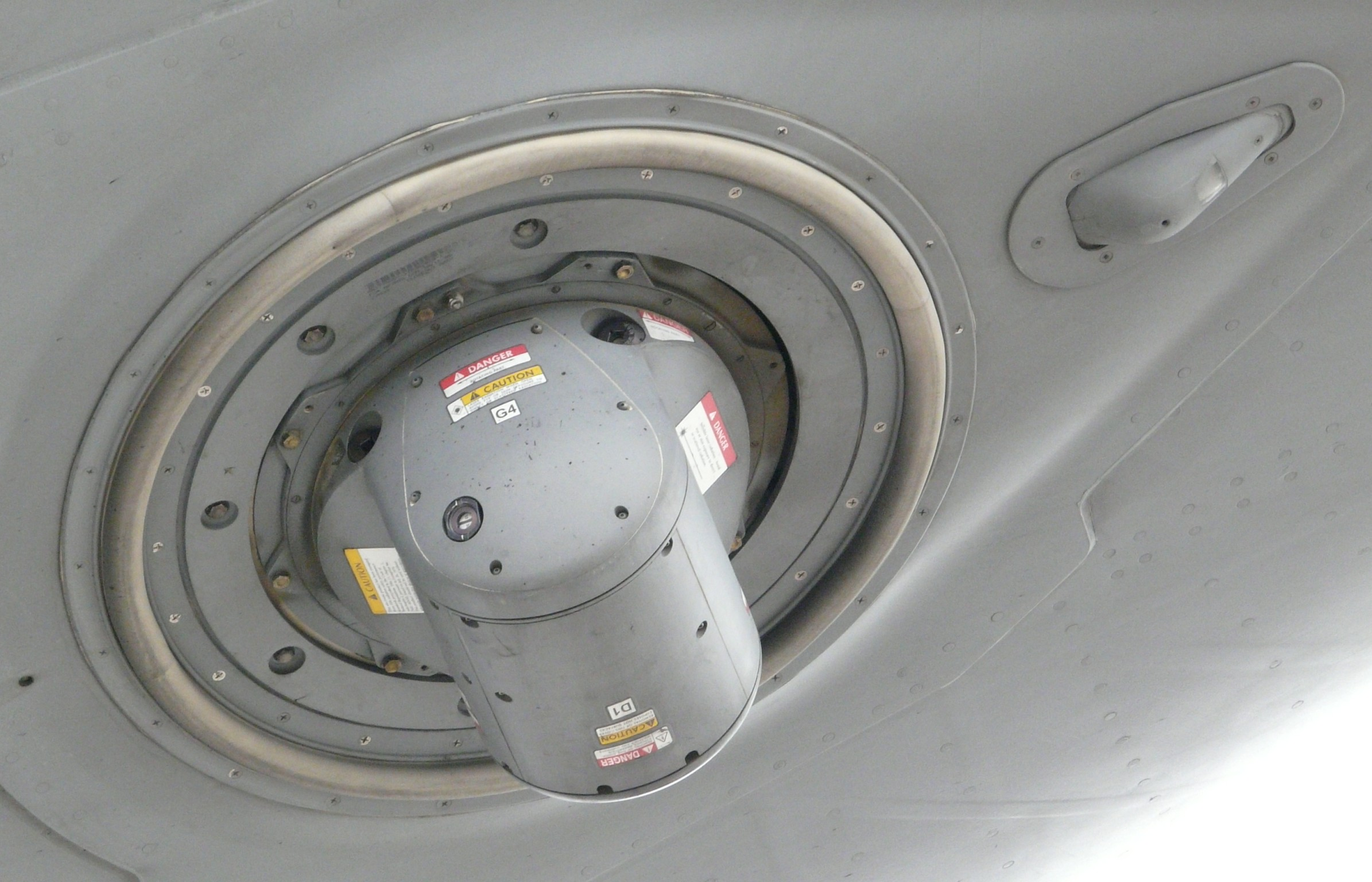 C-17 missile countermeasures laser turret, Fairchild AFB, Washington